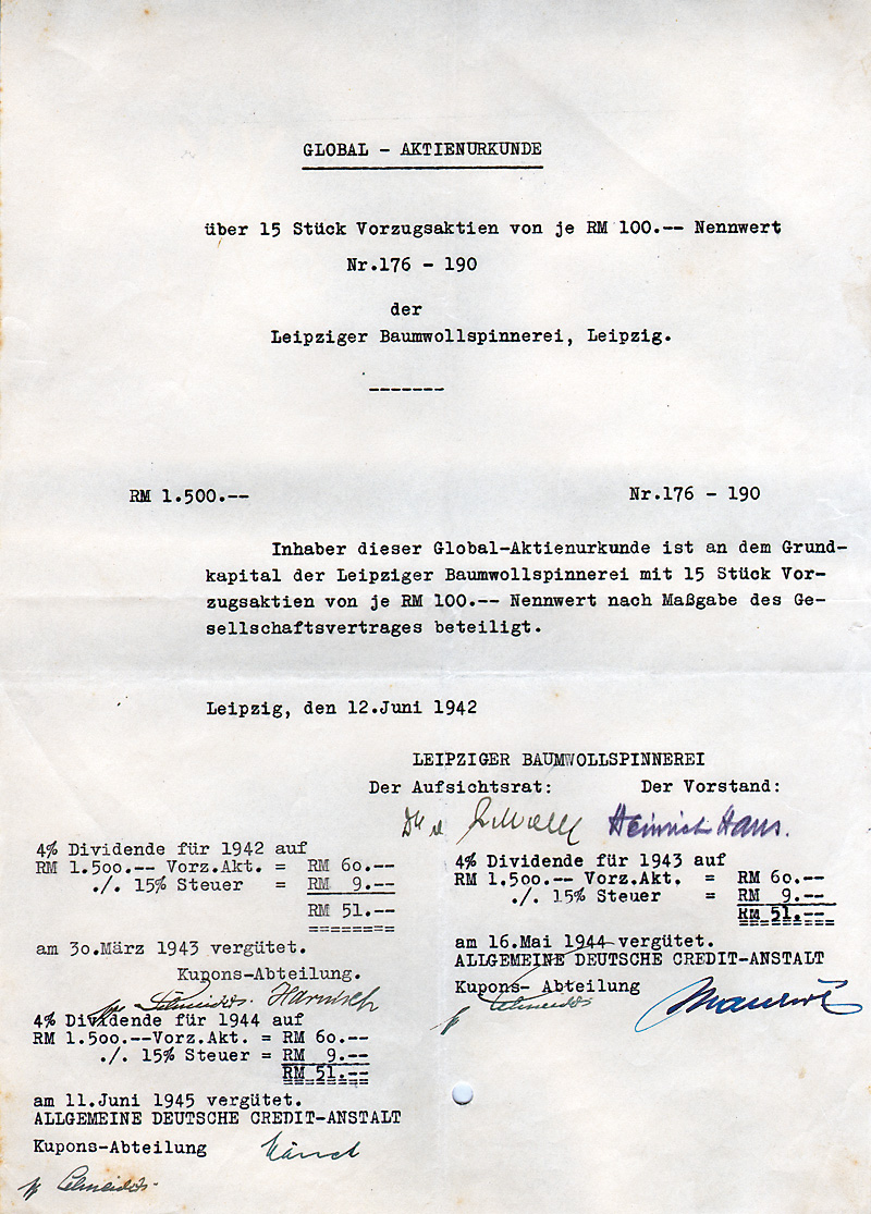 Prefered Shares of the Leipziger Baumwollspinnerei, issued 12. June 1942